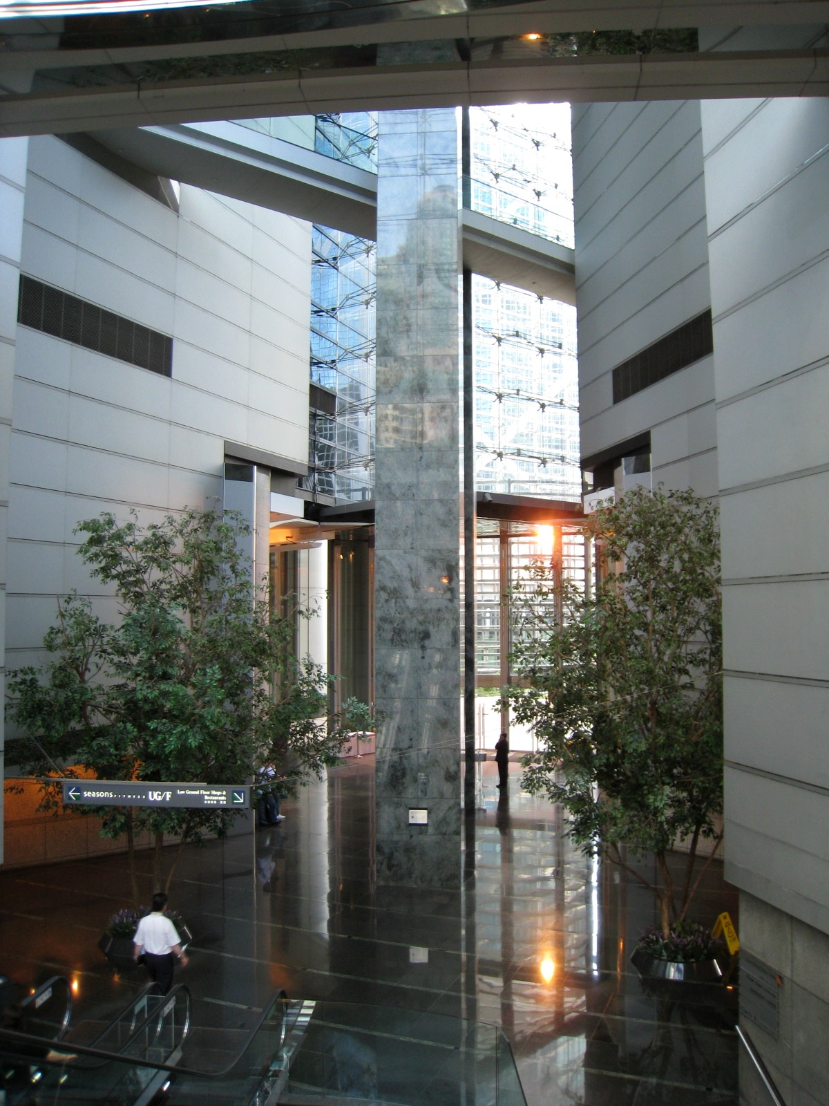 HK Citibank Tower Lobby 花旗銀行大廈